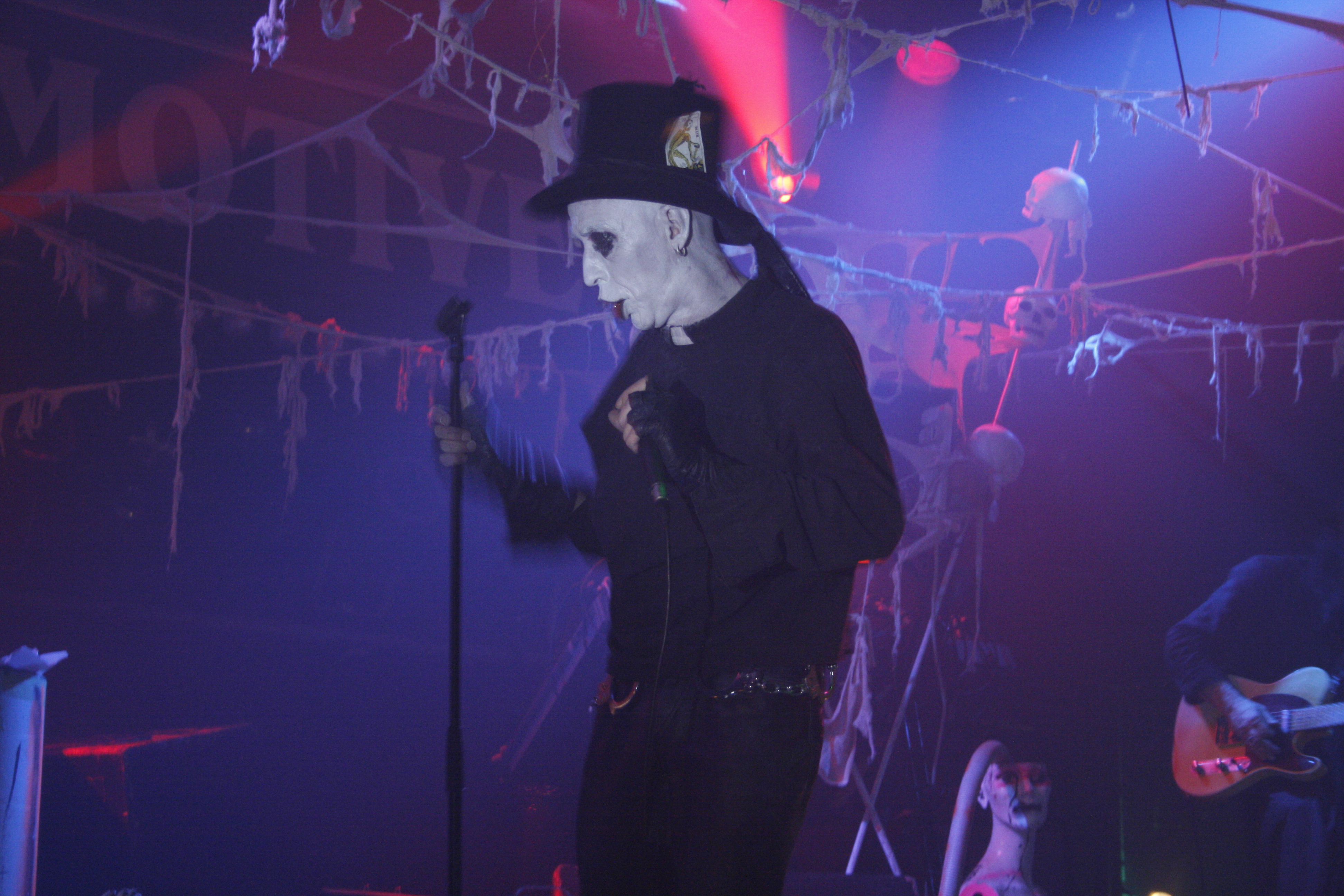 Alien Sex Fiend live in Paris at "la Loco"